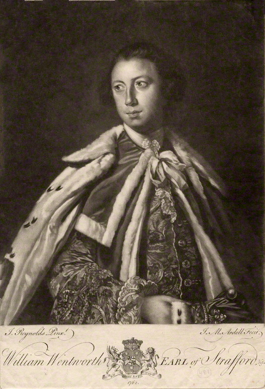 Portrait of William Wentworth, 2nd Earl of Strafford (1722-1791)